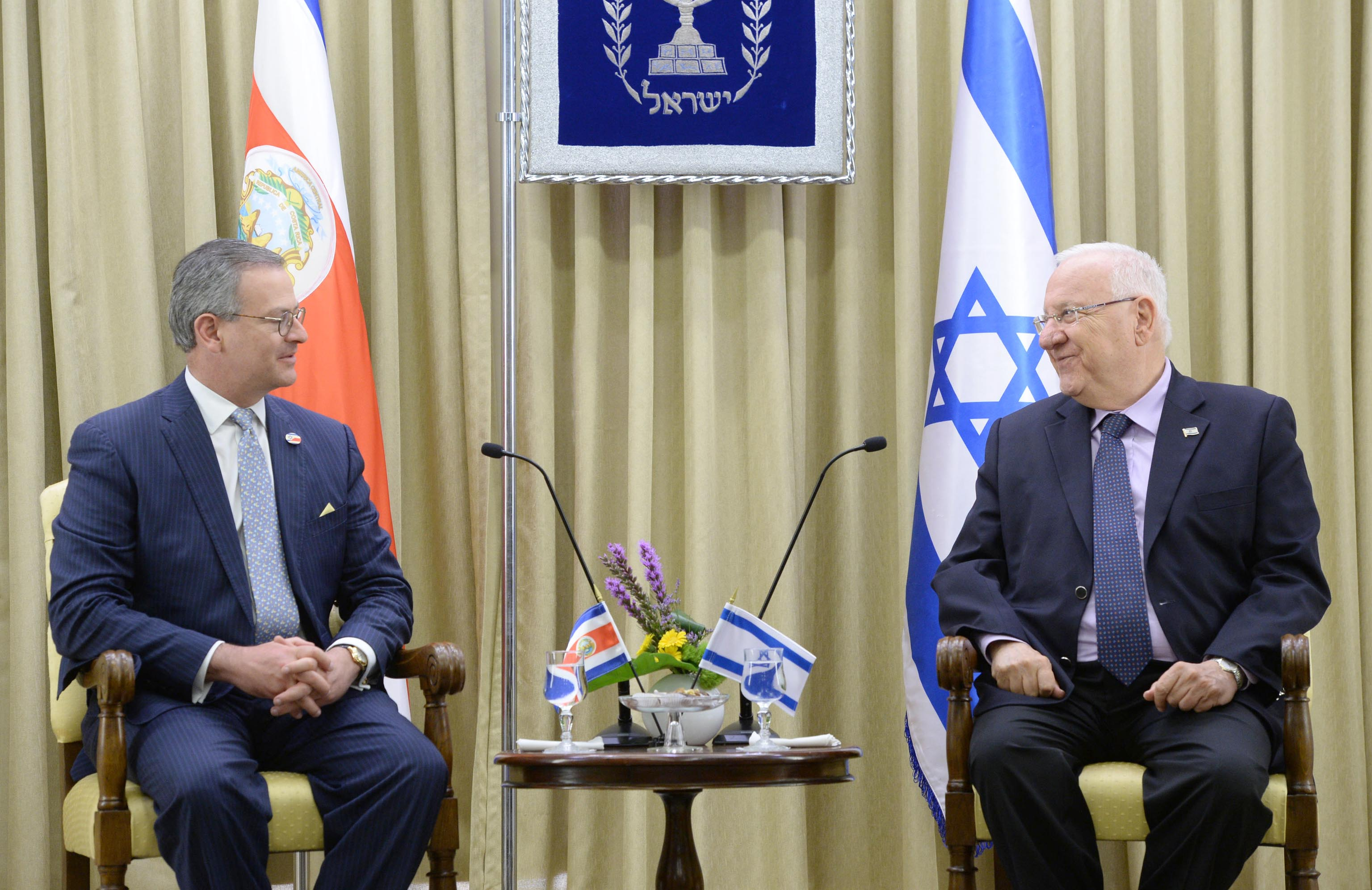 President Reuven Rivlin met with the Danish Foreign Minister and later with the Minister of Foreign Affairs of Costa Rica, who visited Israel for the first time. Wednesday, May 17, 2017. Photo Credit: Mark Neyman / GPO